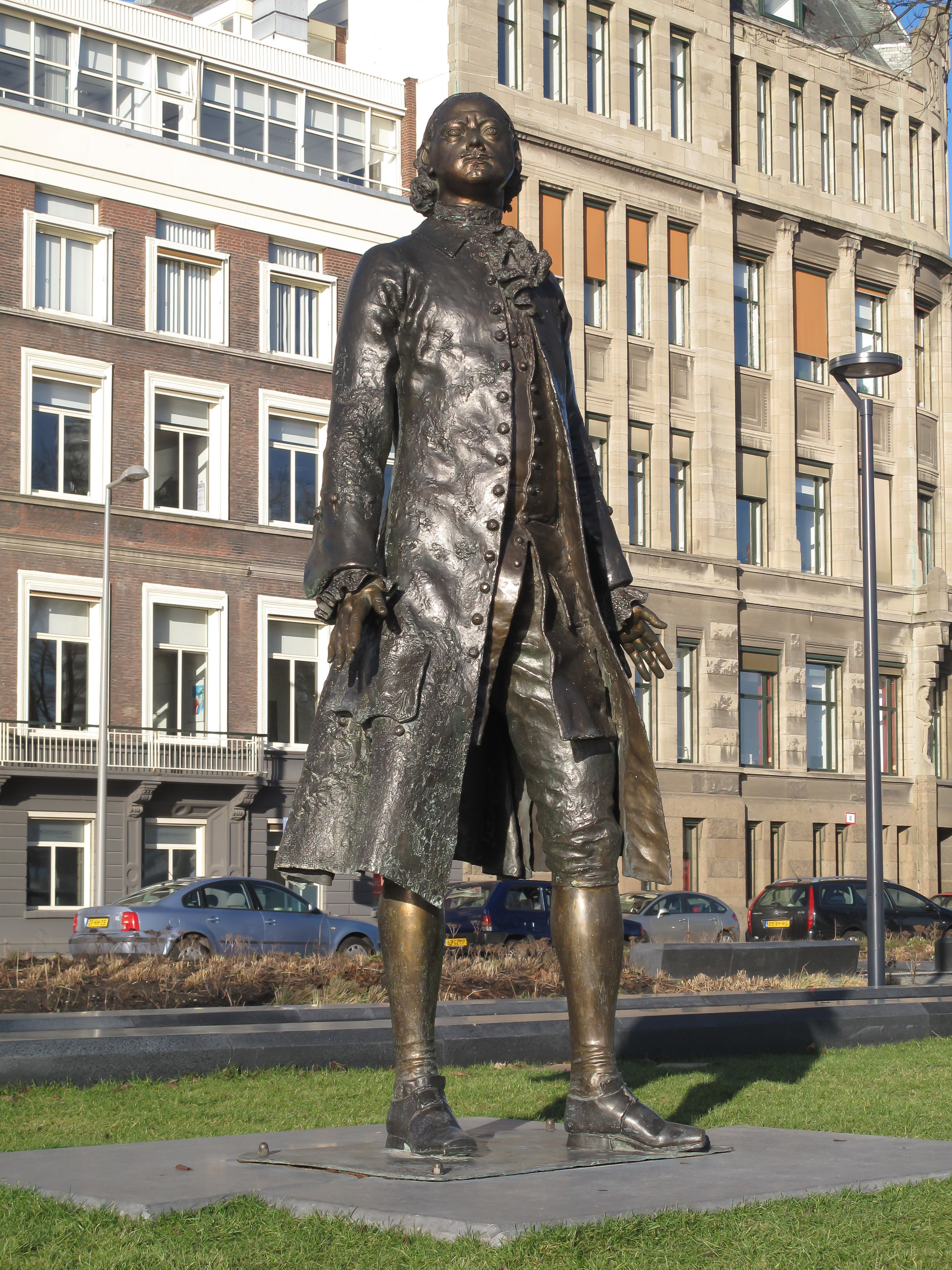 Rotterdam, statue tsar Peter the Great (designed by L Baranov) near the Veerhaven